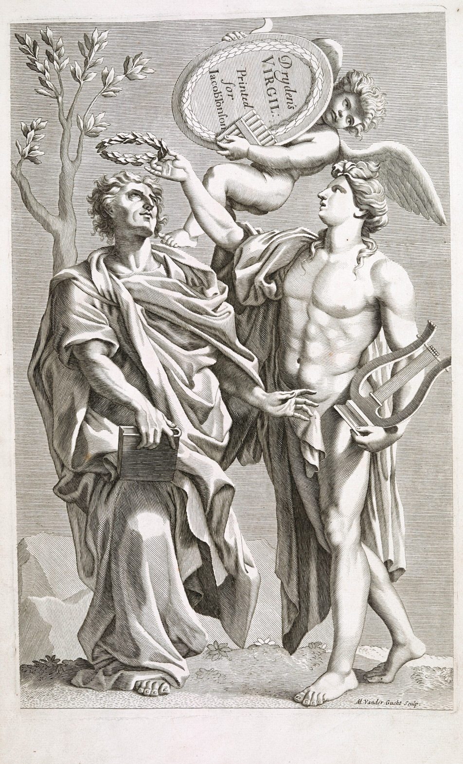 John Dryden, tr., The Works of Virgil (1697) frontispiece